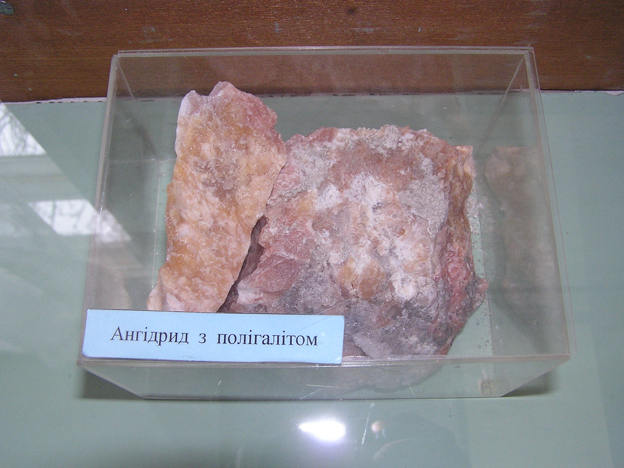 History museum of Truskavets - Anhydrite and Polyhalite